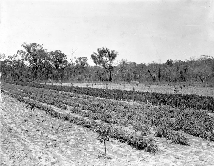 Fruit trees and peas, Stanthorpe.